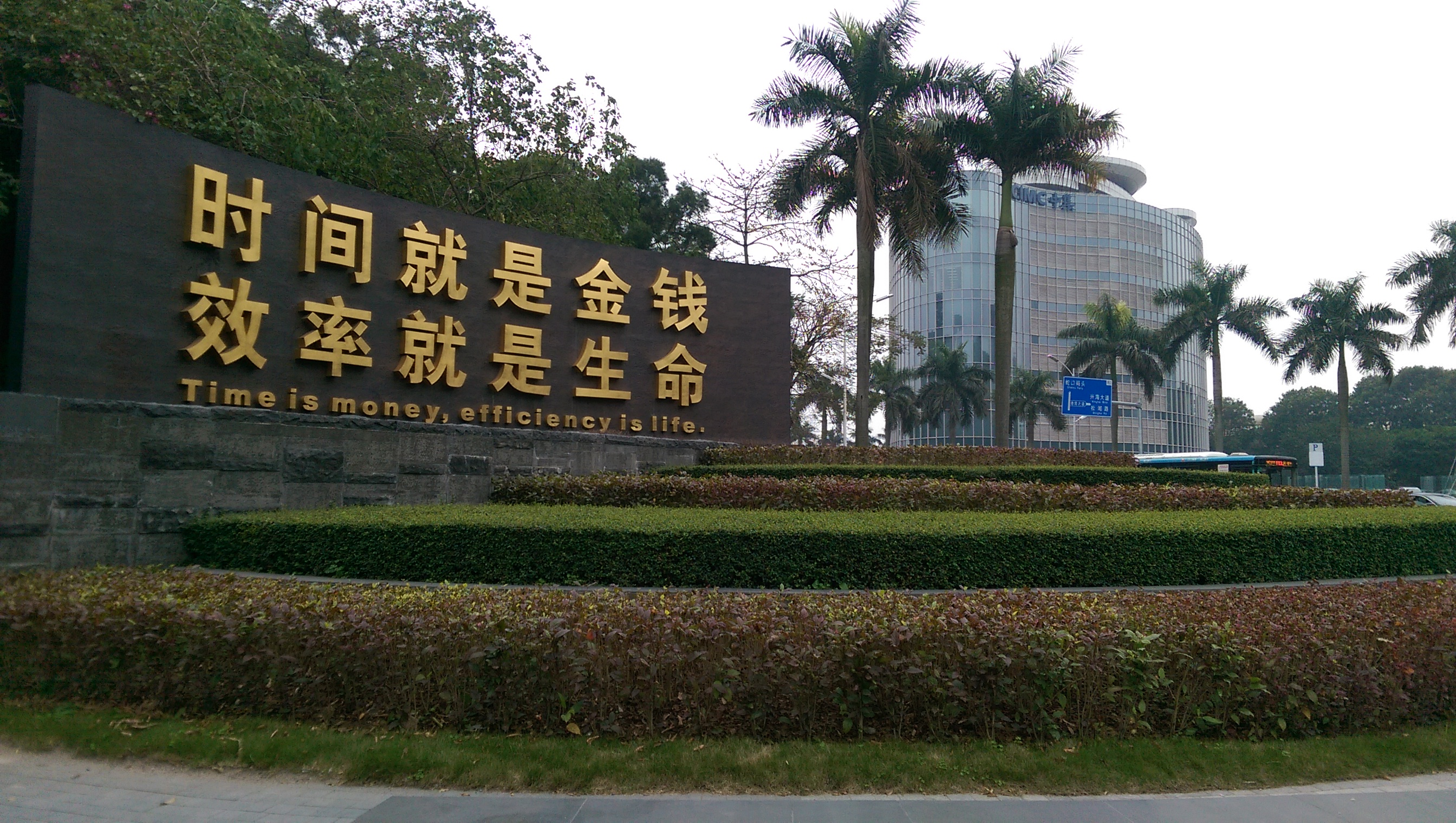 A slogan in Time Square, Shekou Industrial Zone